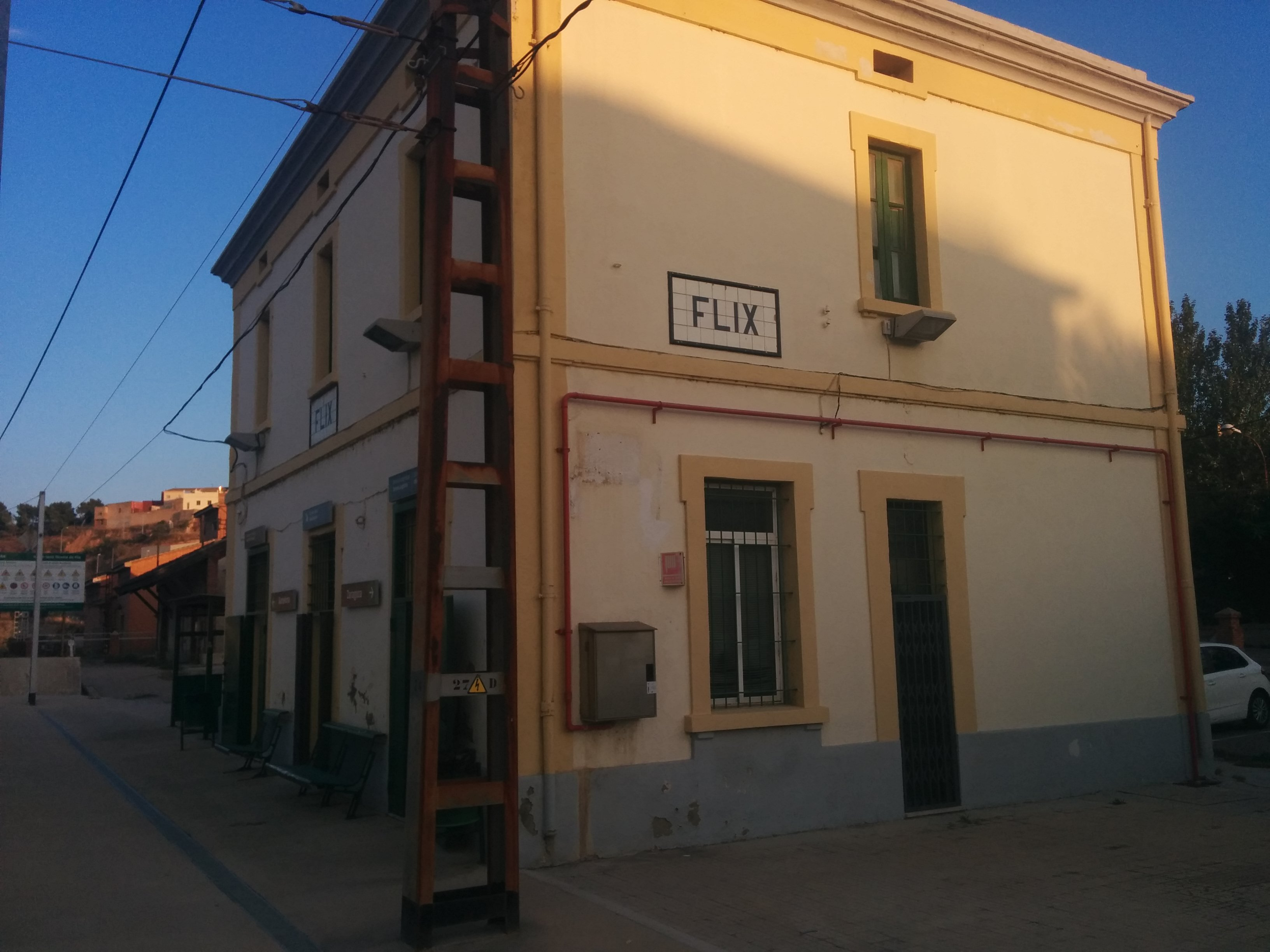 Flix, Train station of Flix, September 2015